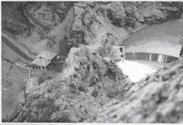 Hydroelectric power station Temac, Serbia